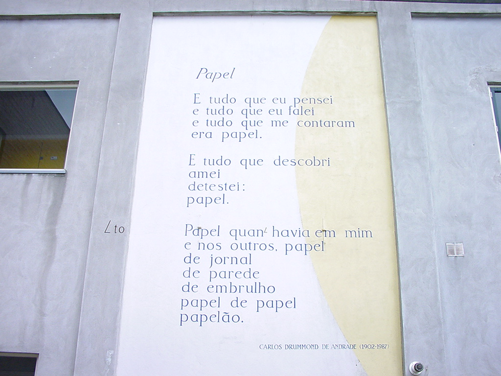 Wallpoem at Middelstegracht 87, city of Leiden in the Netherlands.